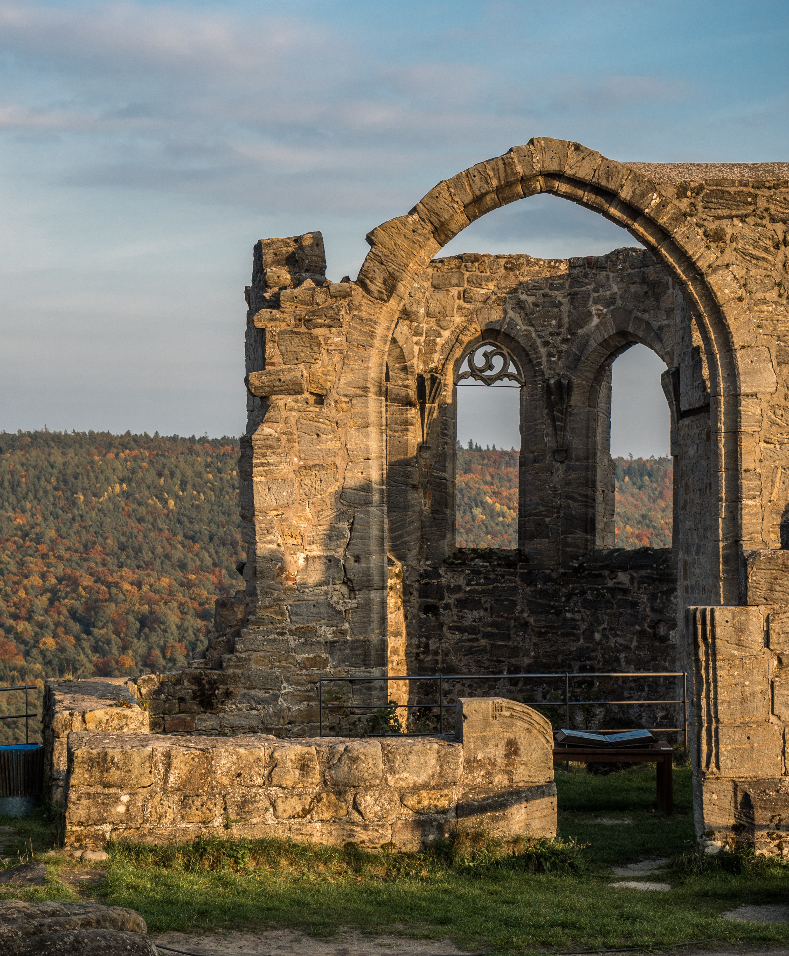 Ruin of the chapel Altenstein